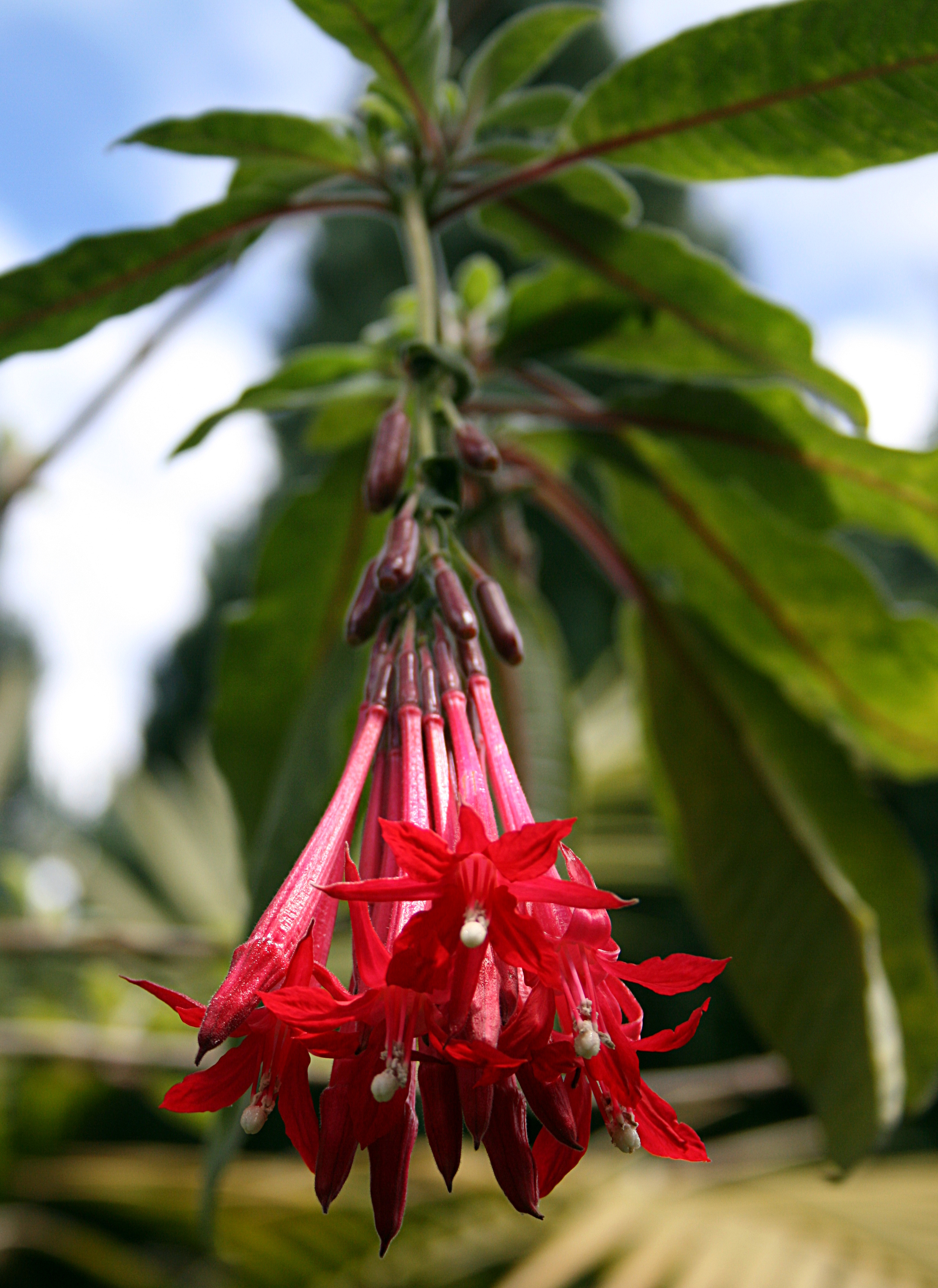 Fuchsia corymbiflora (syn. Fuchsia boliviana) at Funchal, Monte.